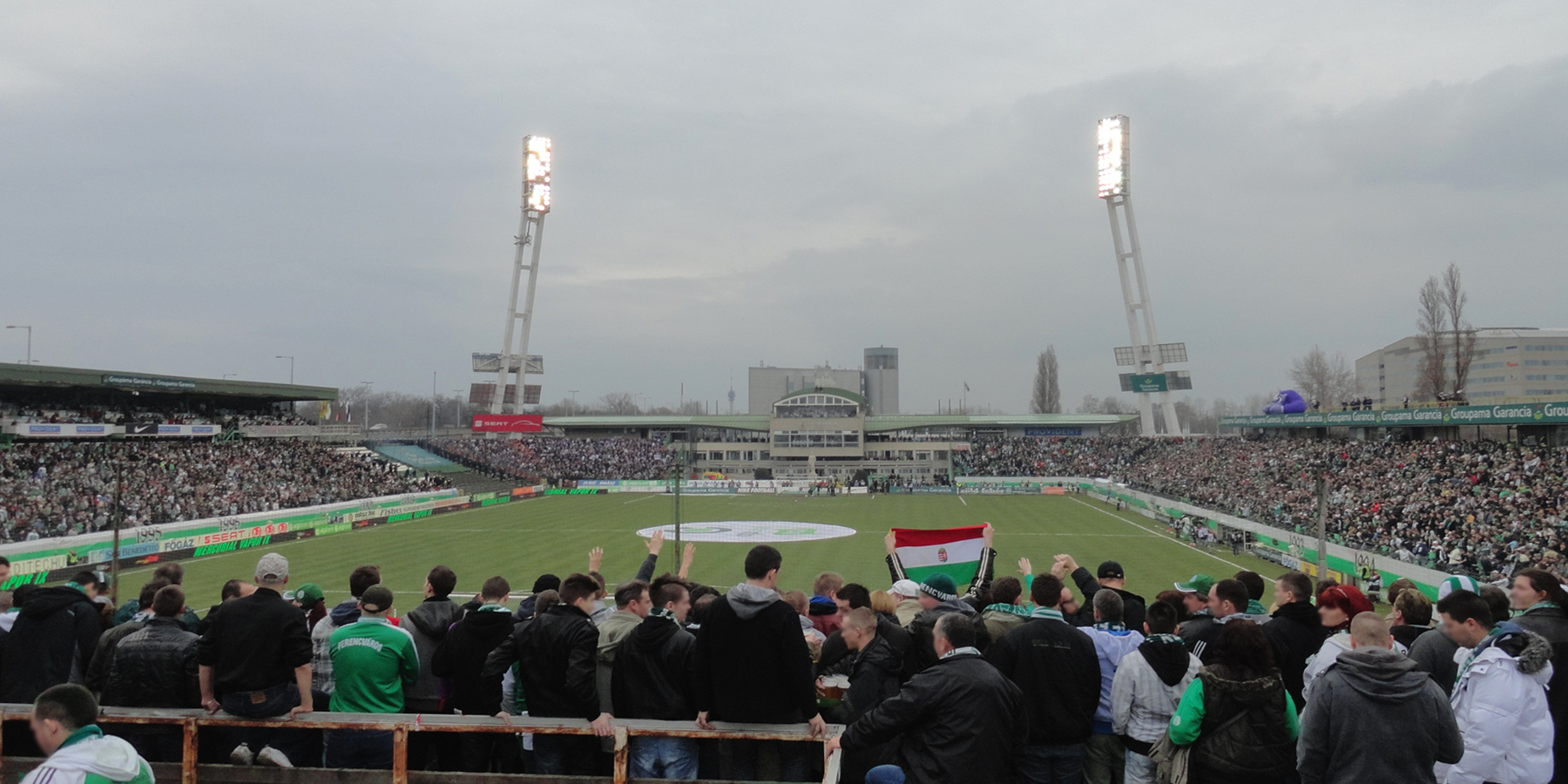 Hungarian derby: Ferencvárosi TC - Újpest FC. Before the game. (March 2013)